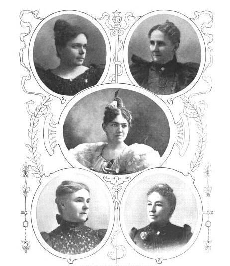 Pictures of several early presidents of the Ossoli Circle, a women's service club founded in Knoxville, Tennessee, USA, in 1885. The Circle's first president (1885–1890), Mary Boyce Temple, is at the center. Mrs. C.E. McTeer, president from 1894 to 1895, is at the top left. Mrs. Angie Warren Perkins, president from 1896 to 1897, is at the top right. Mrs. C. J. McClung, president from 1895 to 1896, is at the bottom left. Mrs. H. R. Gibson, president from 1892 to 1894, is at the bottom right.